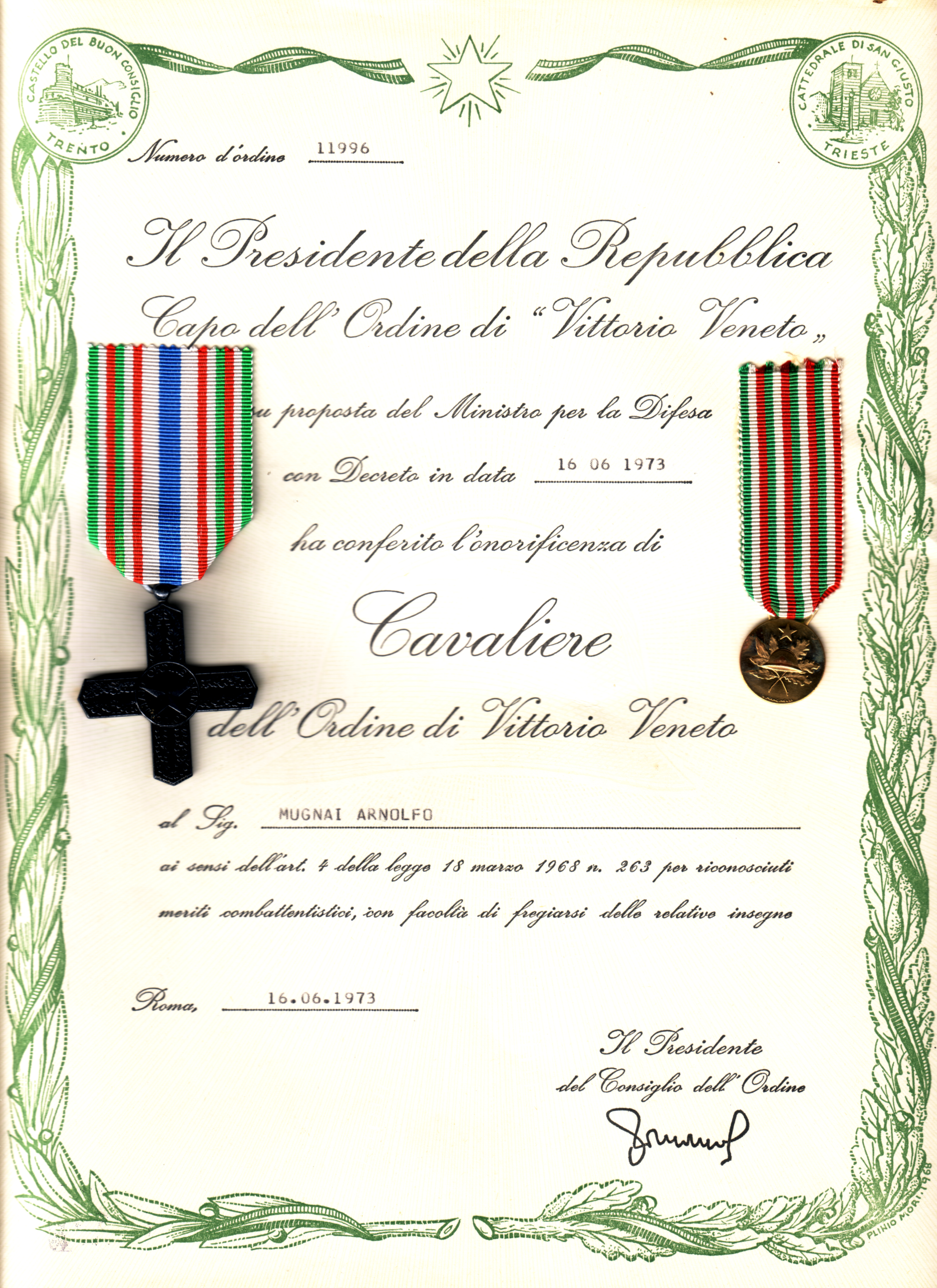 Diploma of Knight of Vittorio Veneto to Arnolfo Mugnai, Italian soldier on WWI